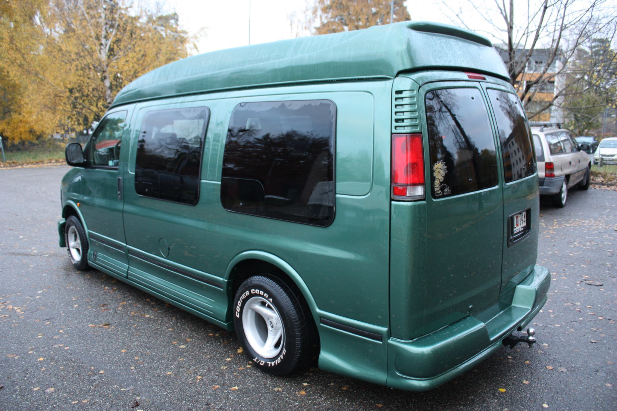 Chevy Explorer 1998 from behind